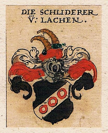 Wappen der Pfälzischen Adelsfamilie Schliederer von Lachen